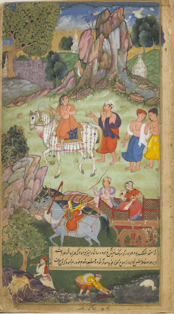 Folio from the Ramayana of Valmiki (The Freer Ramayana), Vol. 1, folio 22; recto: Rsyasrnga travels to Ayodhya with Santa; verso: text 1597-1605 Govardhan , (Indian, Indian) Mughal dynasty Opaque watercolor, ink, and gold on paper H: 26.5 W: 13.9 cm Northern India Gift of Charles Lang Freer F1907.271.22